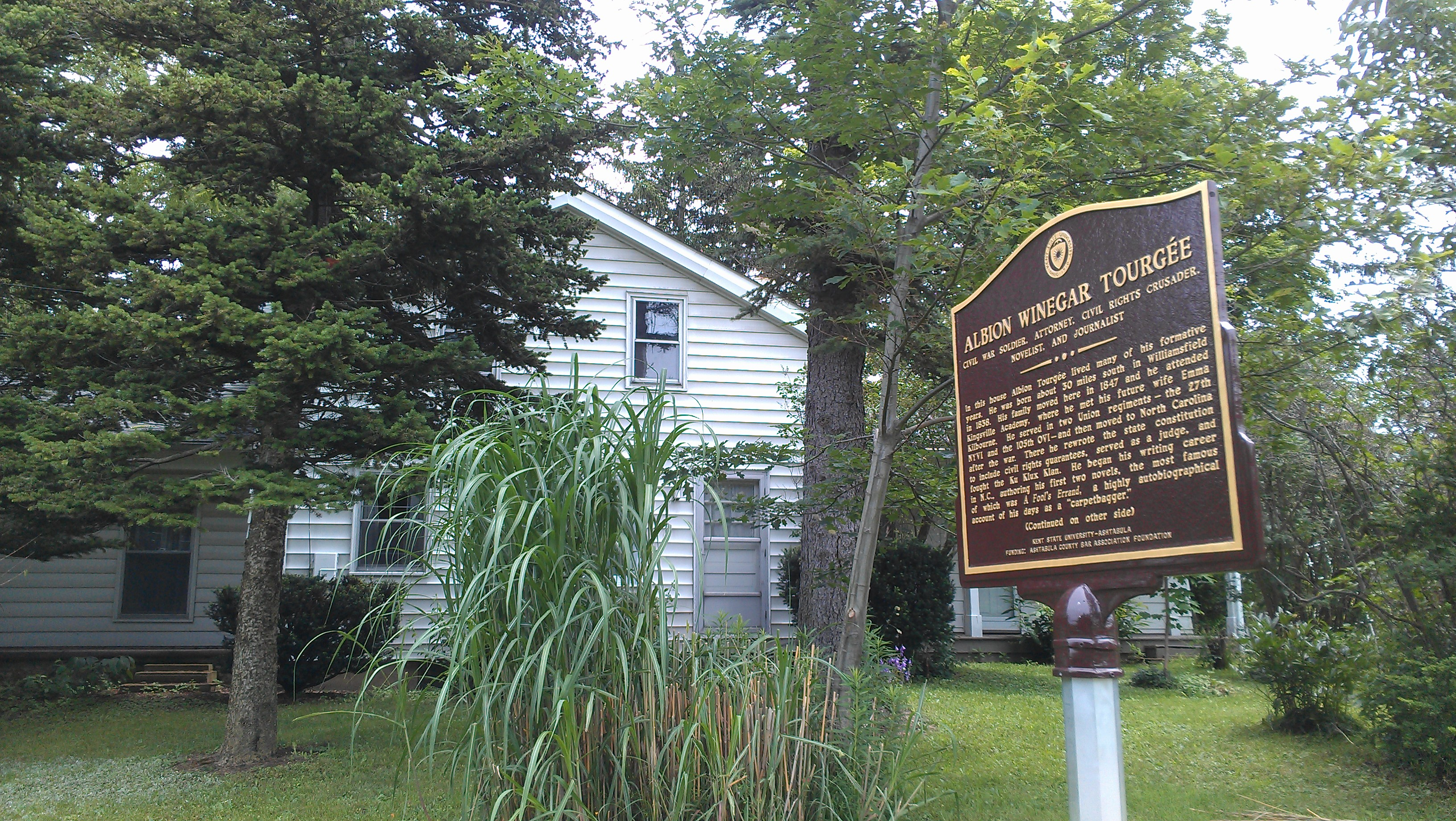 Recent photo of the historical monument that was placed in front of Albion Tourgée's home. I also wrote the copy for the marker.